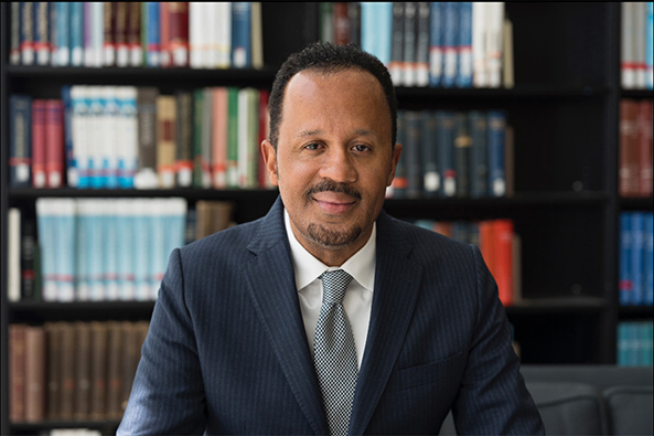 Photo of Dexter R. Voisin